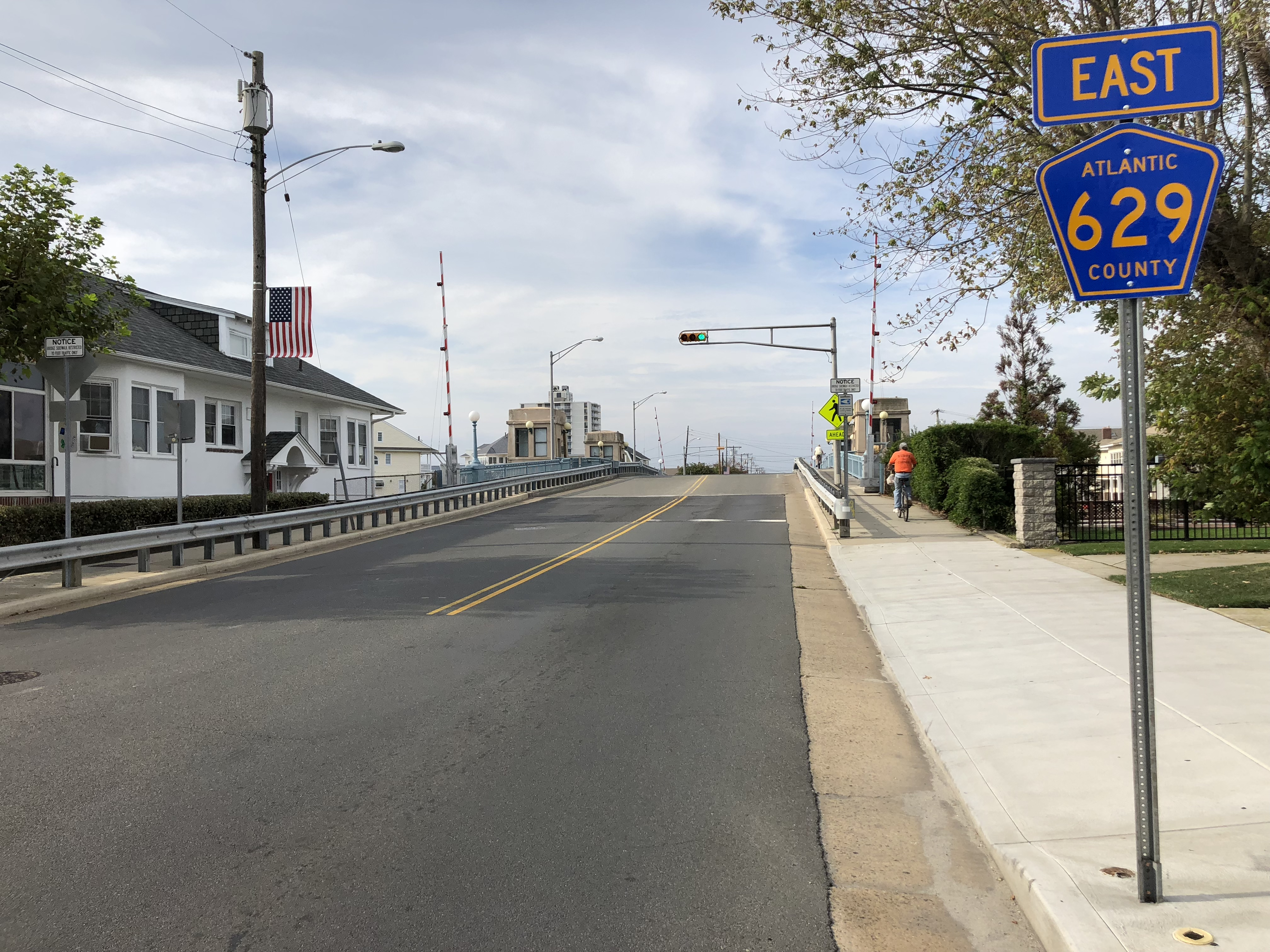 View east along Atlantic County Route 629 (Dorset Avenue) at Winchester Avenue in Ventnor City, Atlantic County, New Jersey